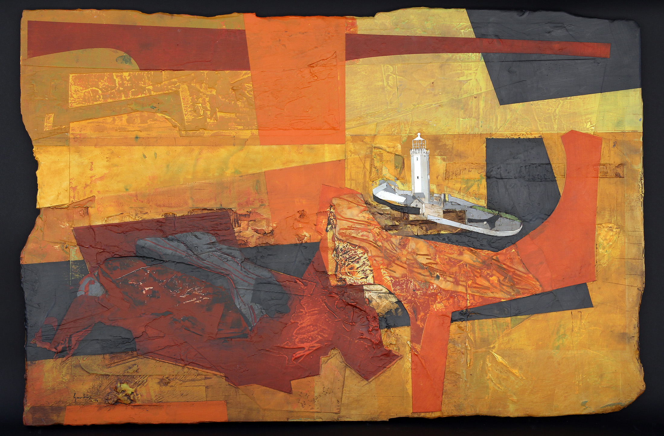 CADMIUM SUN, GODREVY LIGHTHOUSE, CORNWALL. 24 x 36 ins (61 x 91.5 cms). Acrylic on poplar panel. By Jeremy Gardiner.